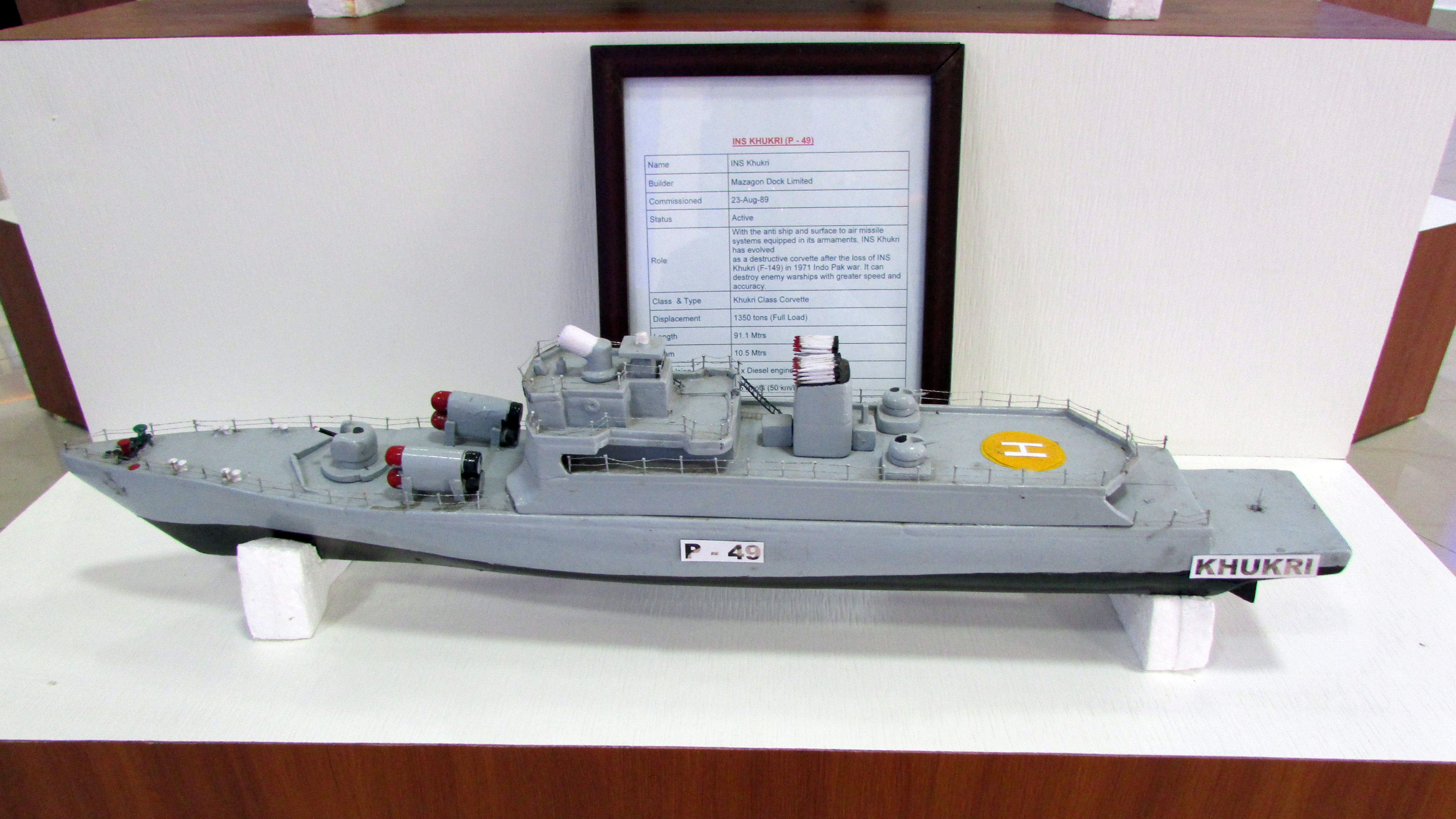 Yoddhasthal Permanent Exhibition Southern command Indian Army Bhopal